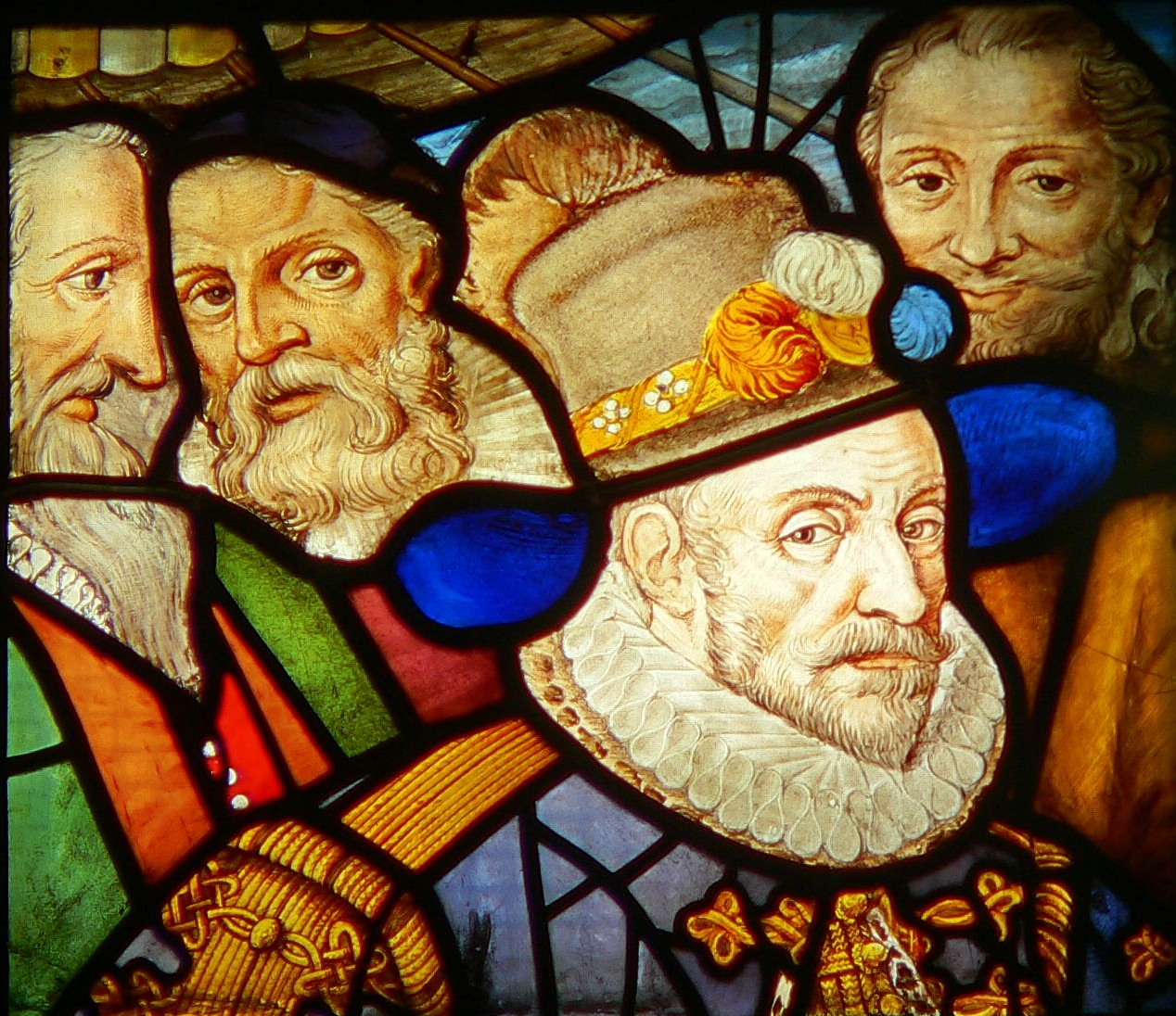 The stained-glass window number 25 (detail) in the Sint Janskerk at Gouda/Netherlands: "The relief of Leiden", William I, Prince of Orange